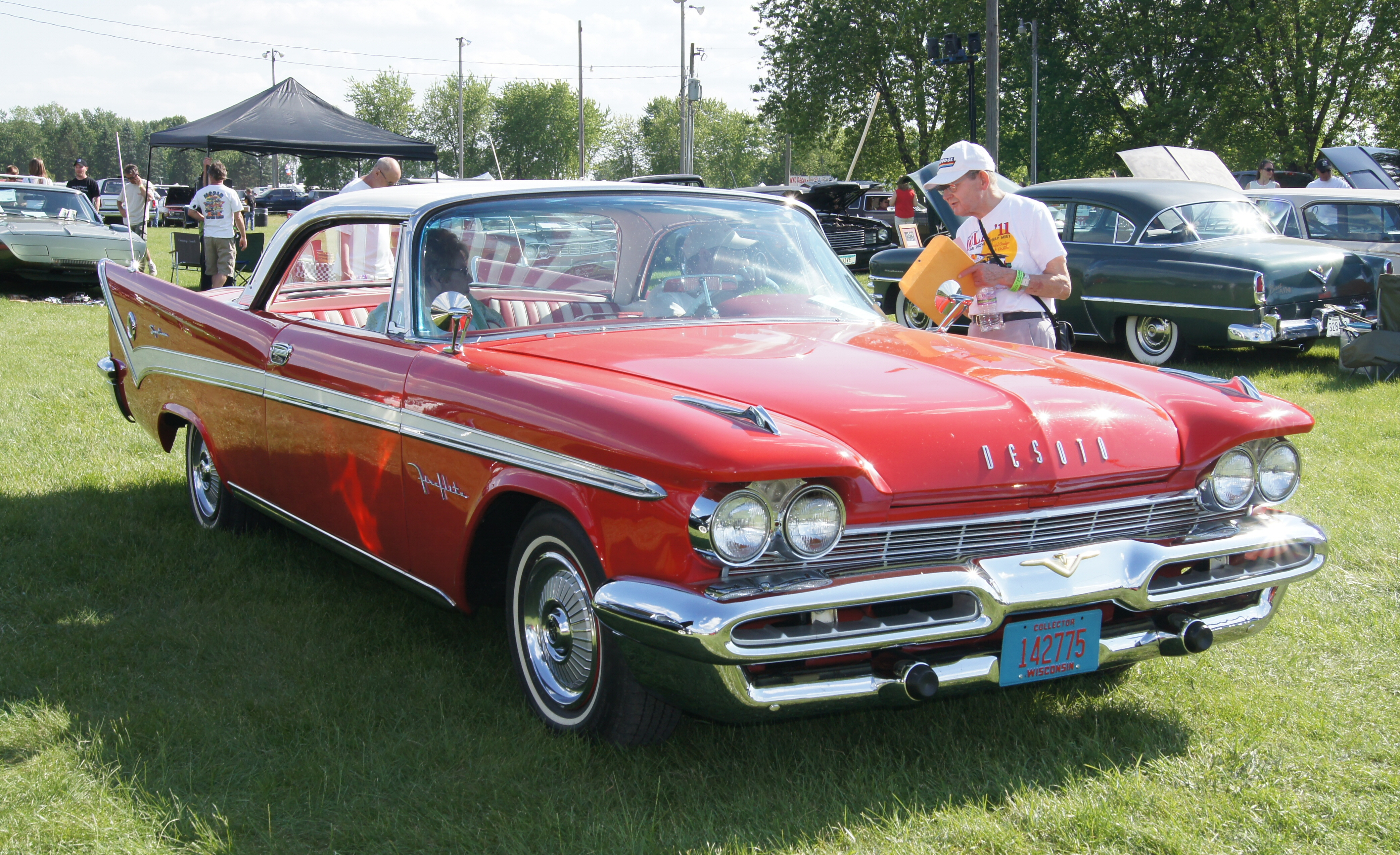 28th Annual Midwest Mopars in the Park June 2, 2012